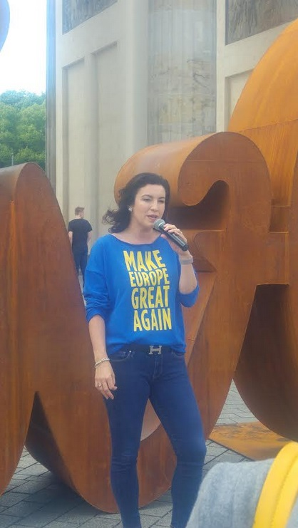 German Minister for Digitation giving a speech infront the sculpture by Mia Florentine Weiss infront of the Brandenburger Tor, 2019